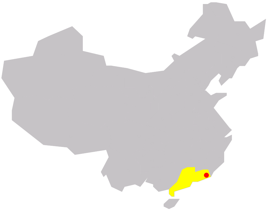 position of Shantou in China